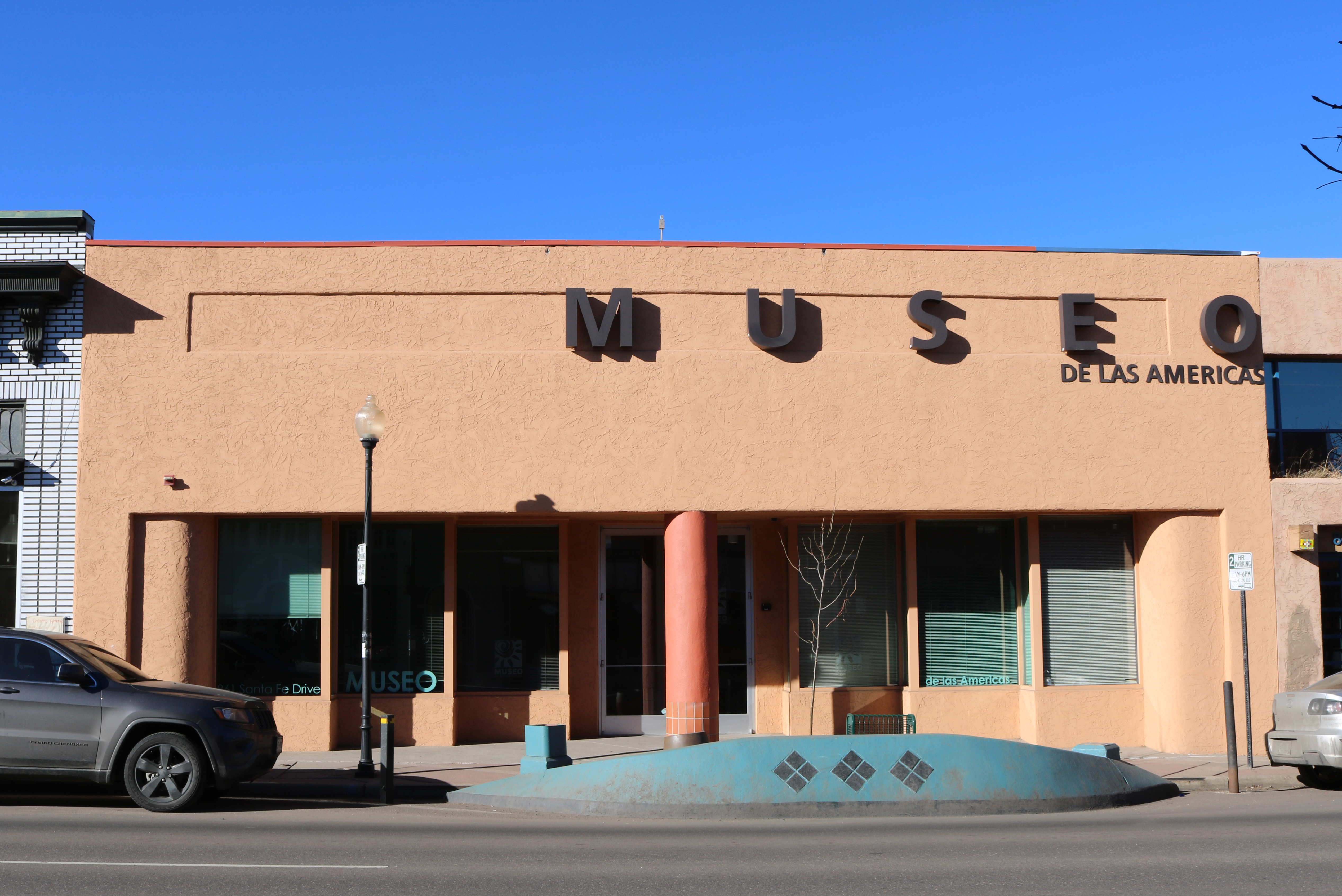 The front of the Museo de las Americas, located at 861 Santa Fe Drive in Denver, Colorado.